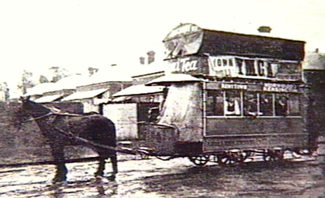 Photo, circa 1908, of a double-decked car (tram) and the horse that hauled it, in a street in a suburb of Adelaide.